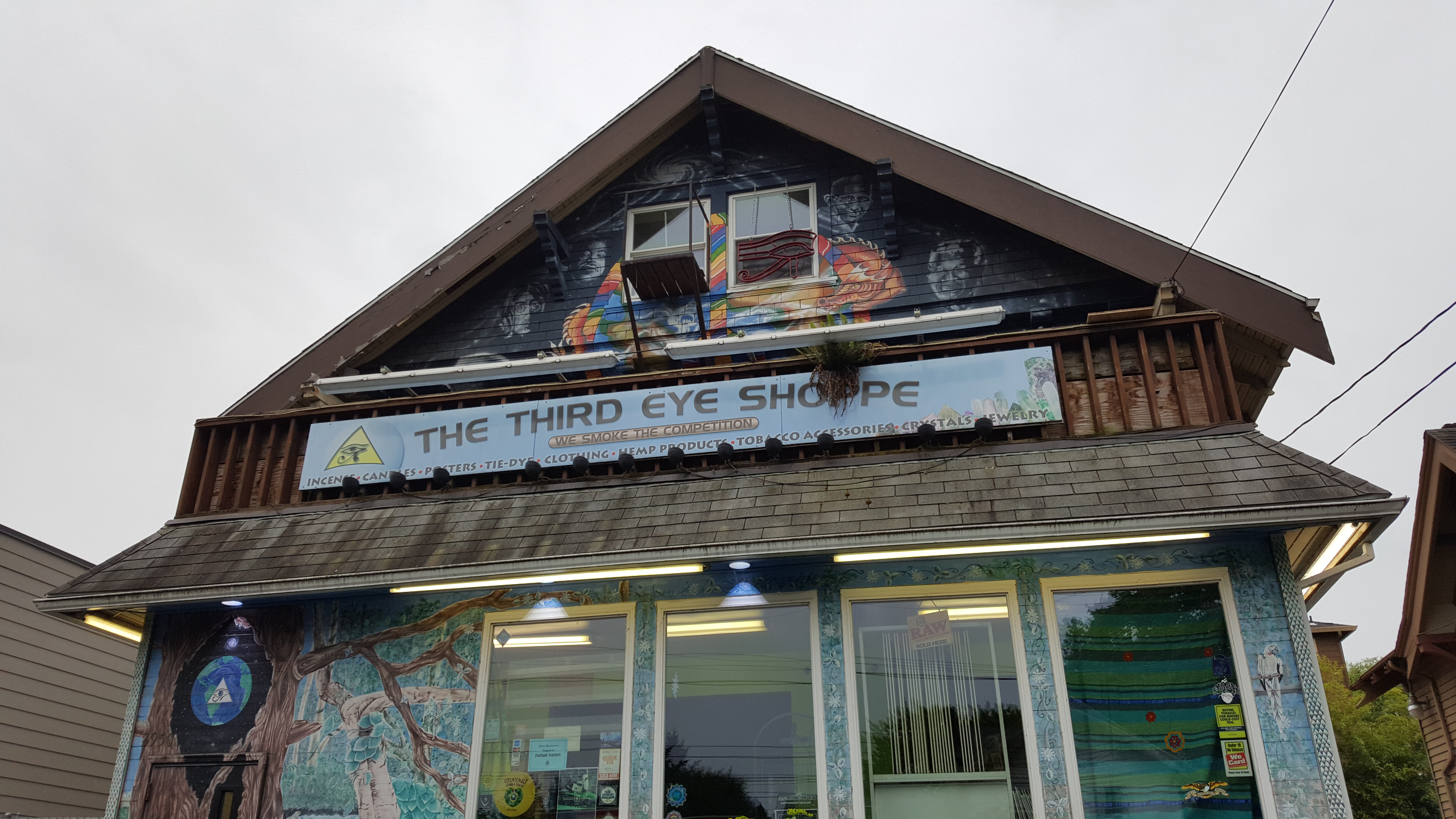 Third Eye